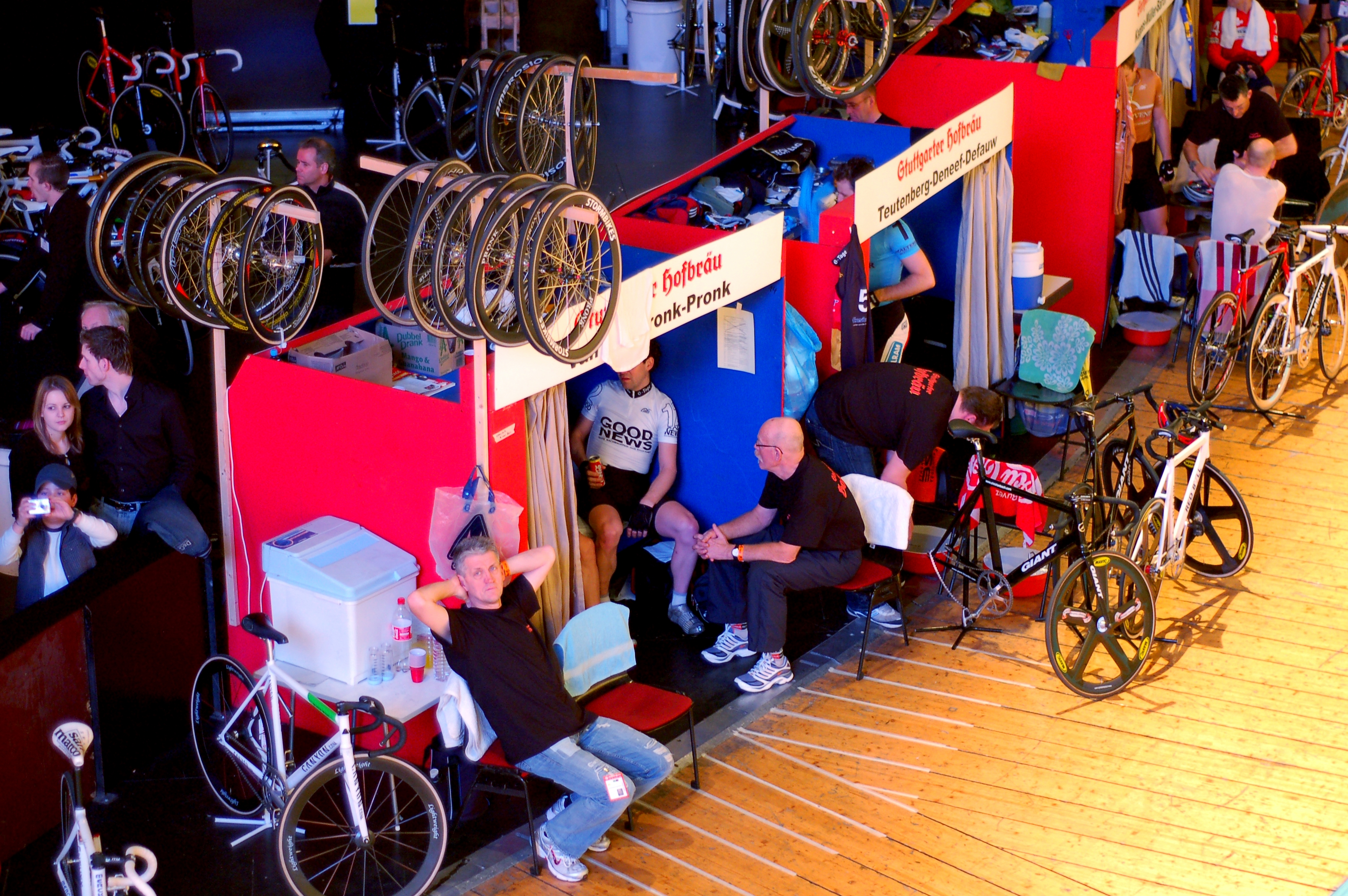 Six days in Stuttgart on January 19th, 2008